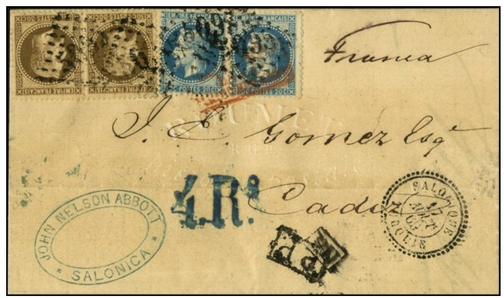 Letter of John Nelson Abbot Company in Salonica